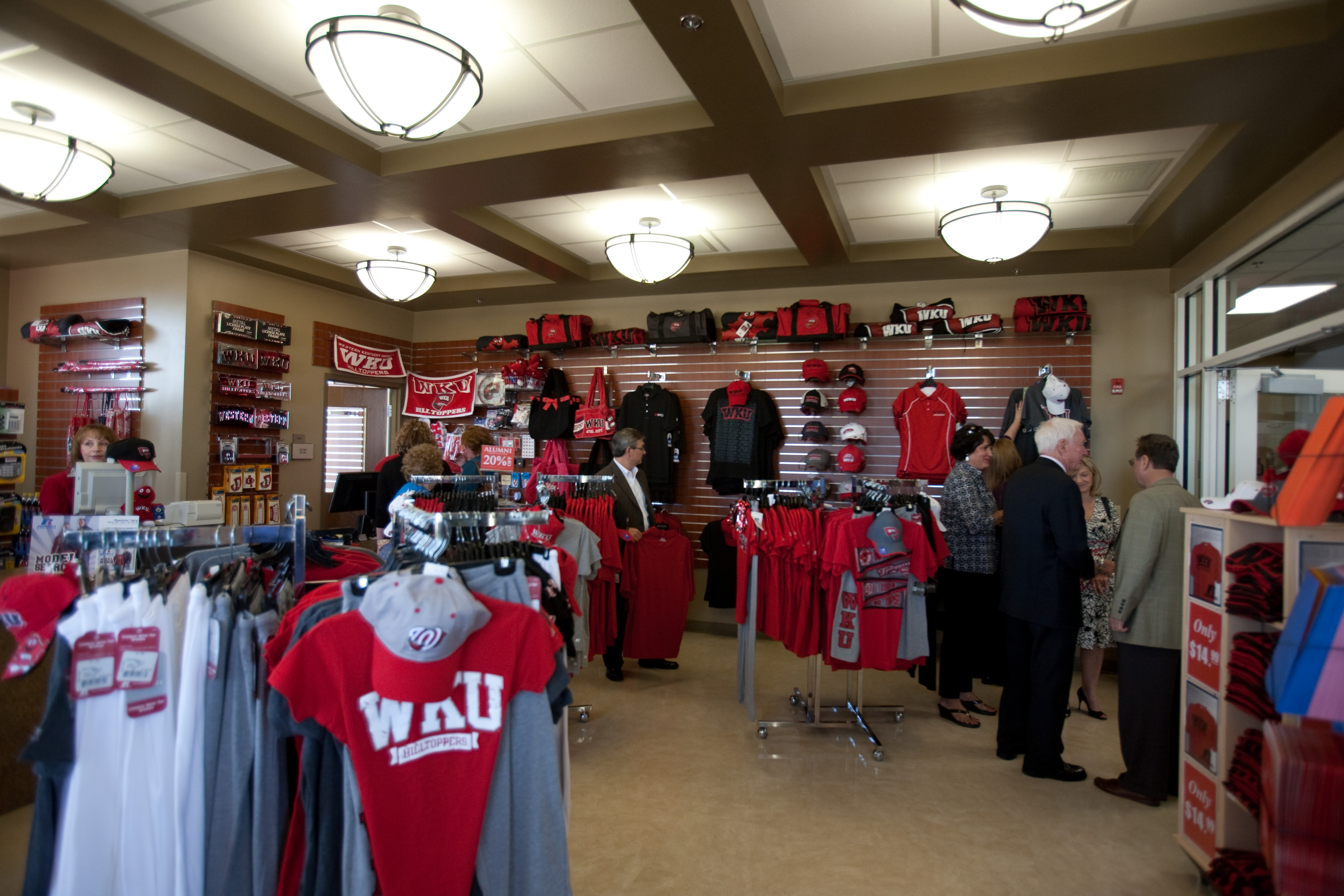 Book Store